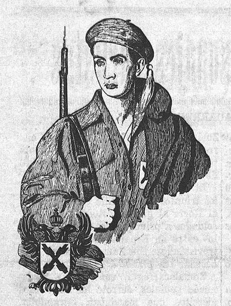 El Requeté